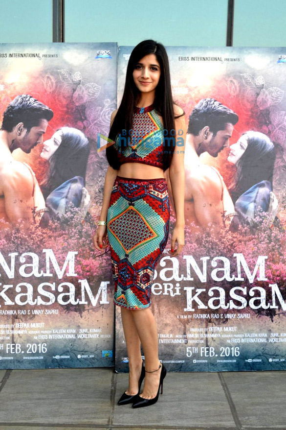 Mawra Hocane during promotions of 'Sanam Teri Kasam' at Eros office